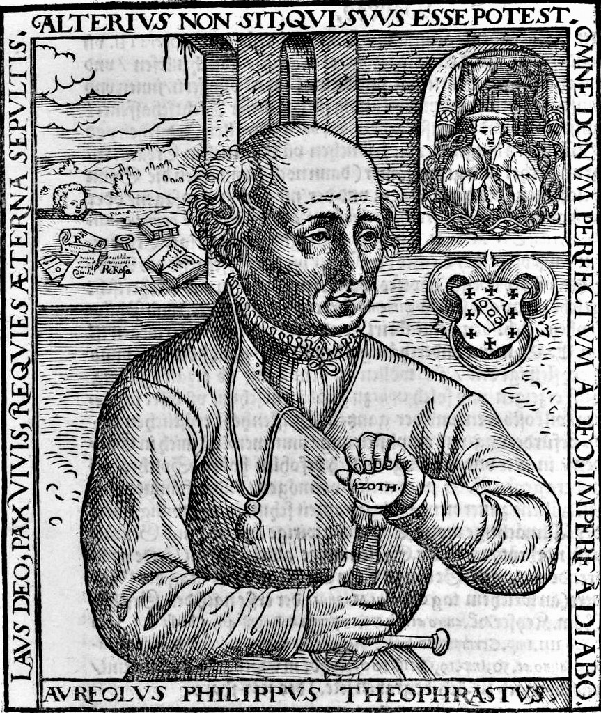 The Rosicrucian portrait of Paracelsus (1567), with the inscription azoth on the hilt of the sword. The image was published in the "Paracelsianist" work Philosophiae magnae Paracelsi (Heirs of Arnold Birckmann , Cologne 1567). The artist is possibly Frans Hogenberg, acting under the directions of Theodor Birckmann (1531/33–1586). This is the first image in which Paracelsus' sword has the word Azoth inscribed on the pommel, and the first to show his attributed coat of arms. Shown in the background are Rosicrucian symbols, including the head of a child protruding from the ground symbolising rebirth. AUREOLUS PHILIPPUS THEOPHRASTUS. LAUS DEO, PAX VIVIS, REQUIES AETERNA SEPULTIS. ALTERIUS NON SIT, QUI SUUS ESSE POTEST. OMNE DONUM PERFECTUM A DEO, IMPERF. A DIABO. AV. PH. TH. PARACELSUS, AETAT. SUAE 47.